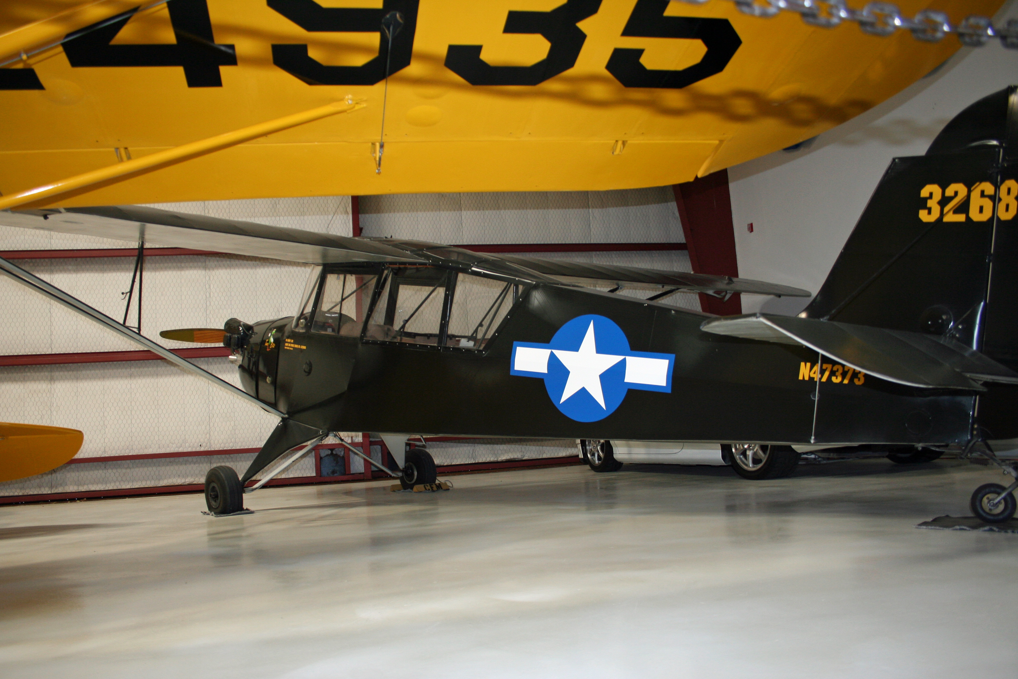 Cavanaugh Flight Museum-2008-10-29-012